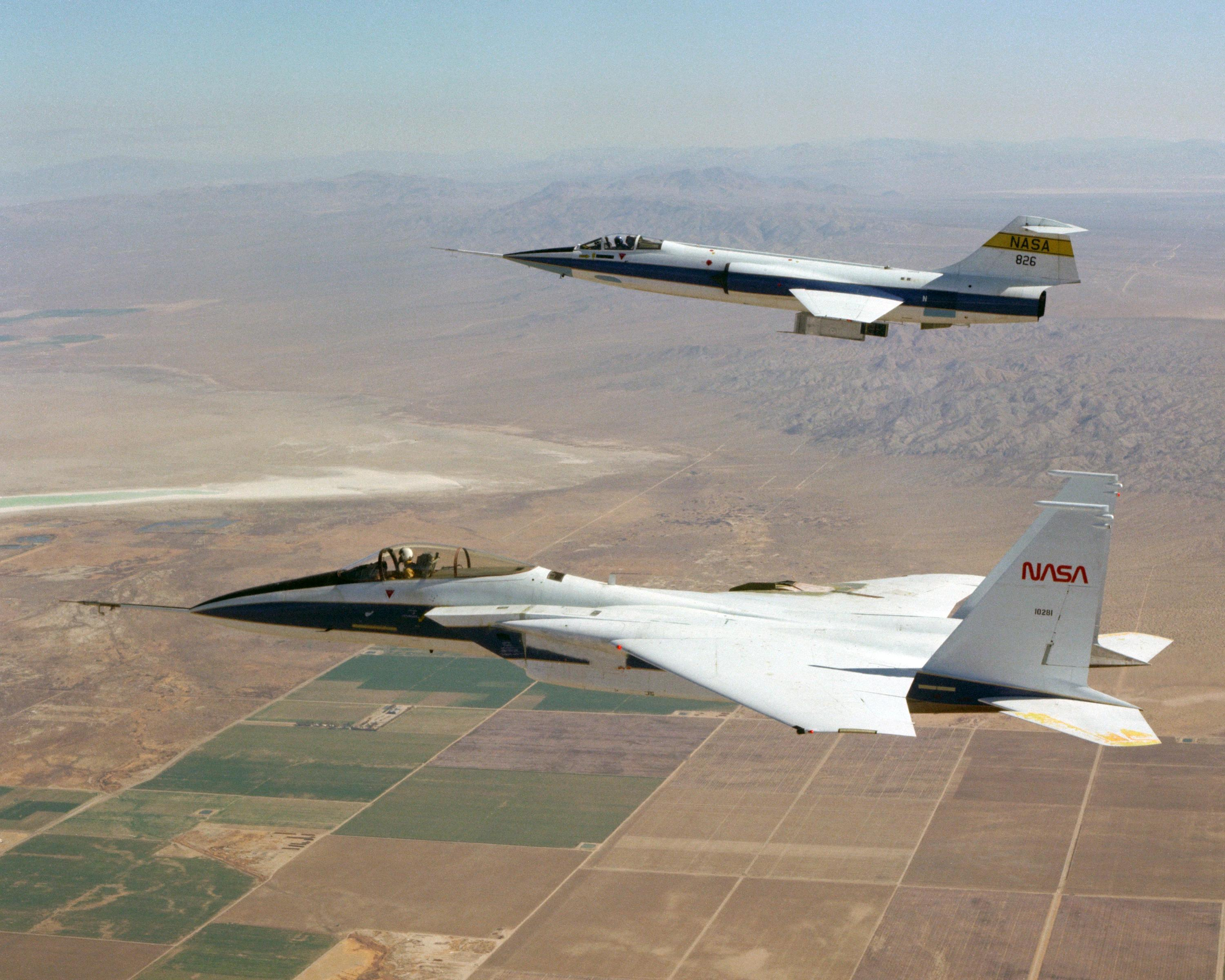 F-15 #281 and F-104 #826 fly in formation during Space Shuttle tile testing. Note the tiles mounted on the right wing of the F-15 and the centerline test fixture of the F-104.